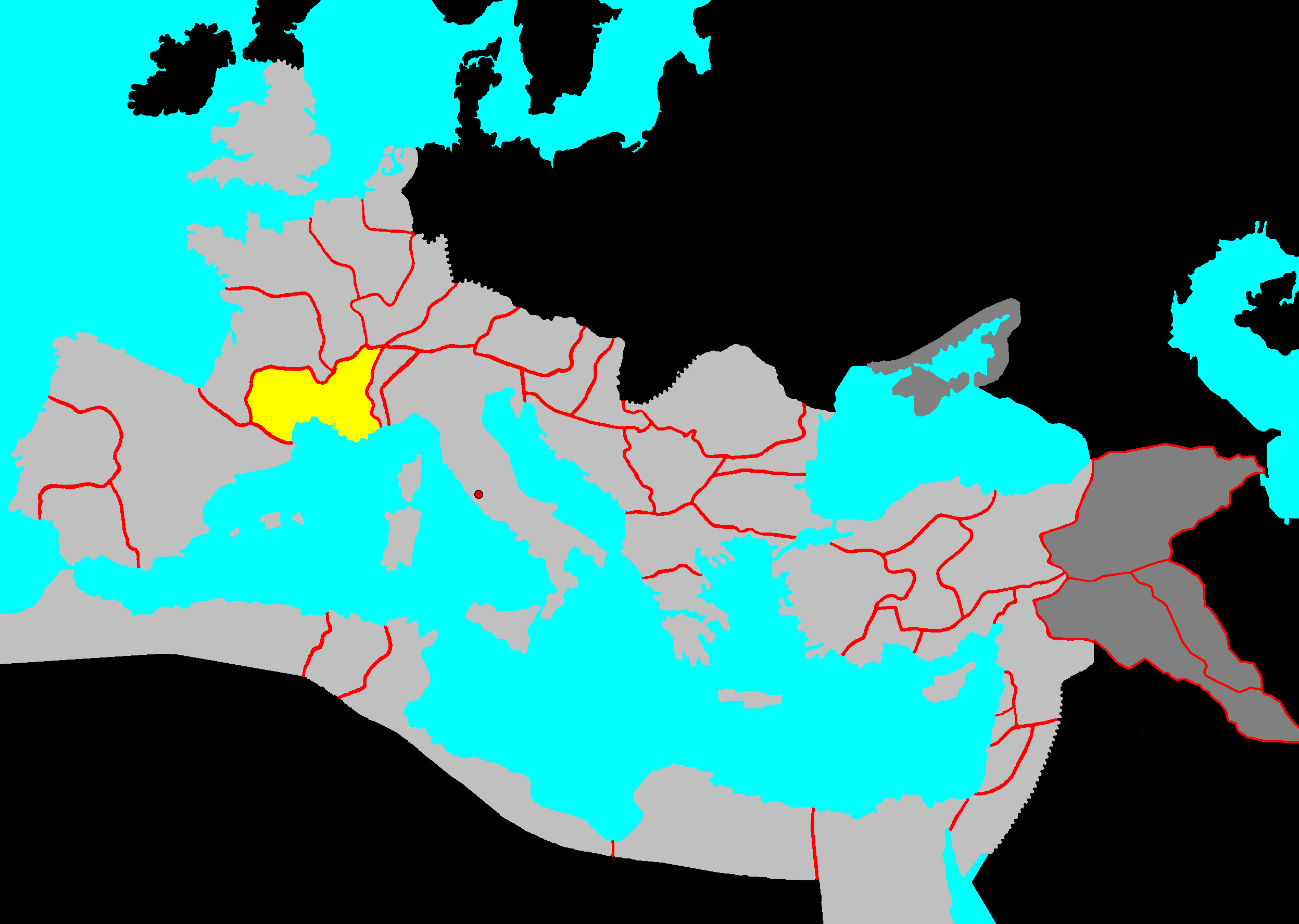 Description: provinces of the Roman Empire (Imperium Romanum) Source: own work Date: December 2005 Author: --Immanuel Giel 12:49, 13 December 2005 (UTC) Other versions: none